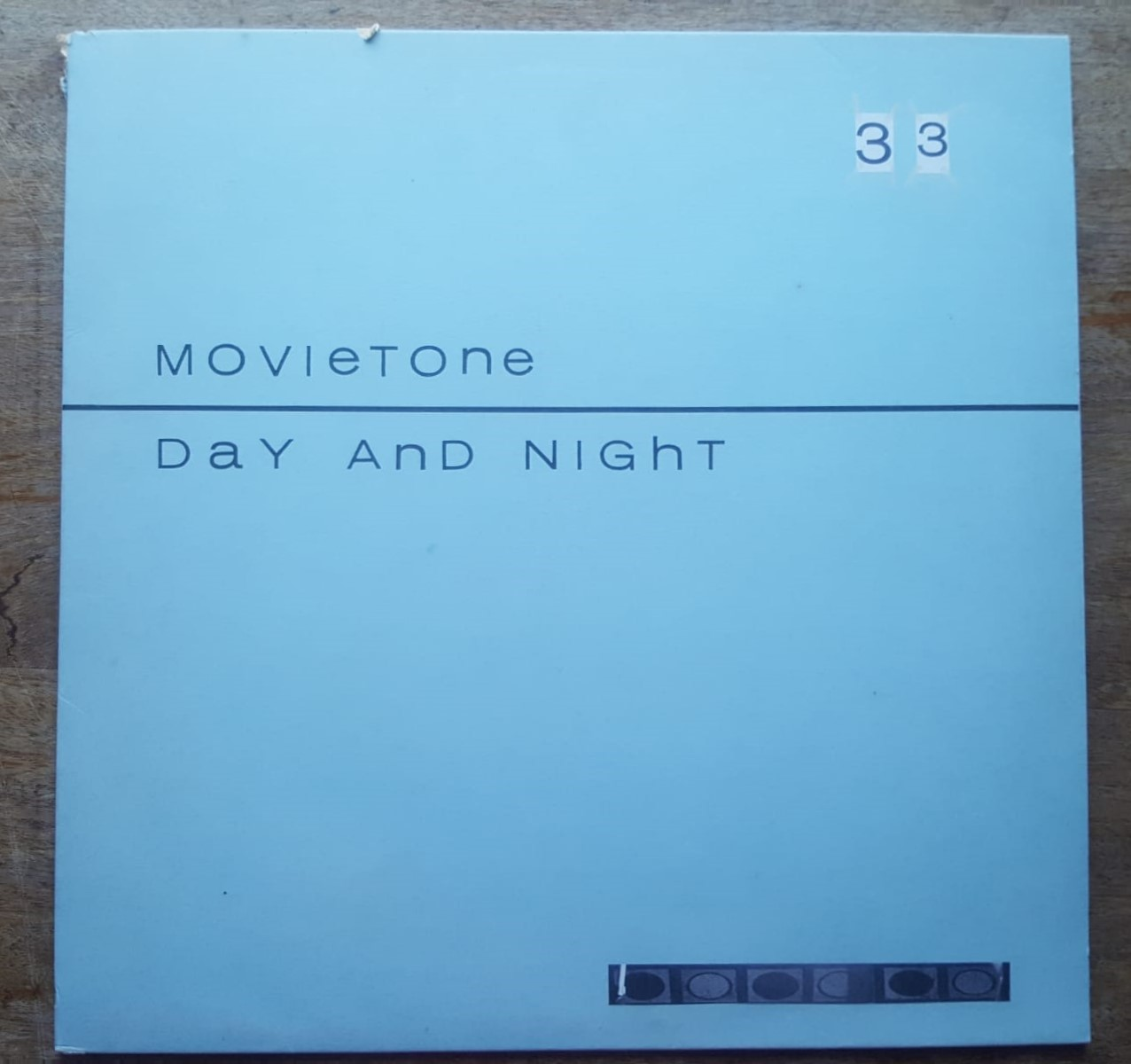 Movietone Day and Night Record, Domino Records, 1997